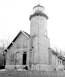 White River Lighthouse U.S. Coast Guard Historic Light Station Information & Photography: Michigan